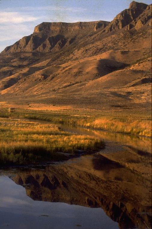 Warner Wetlands in Lake County, Oregon with Hart Mountain in the background